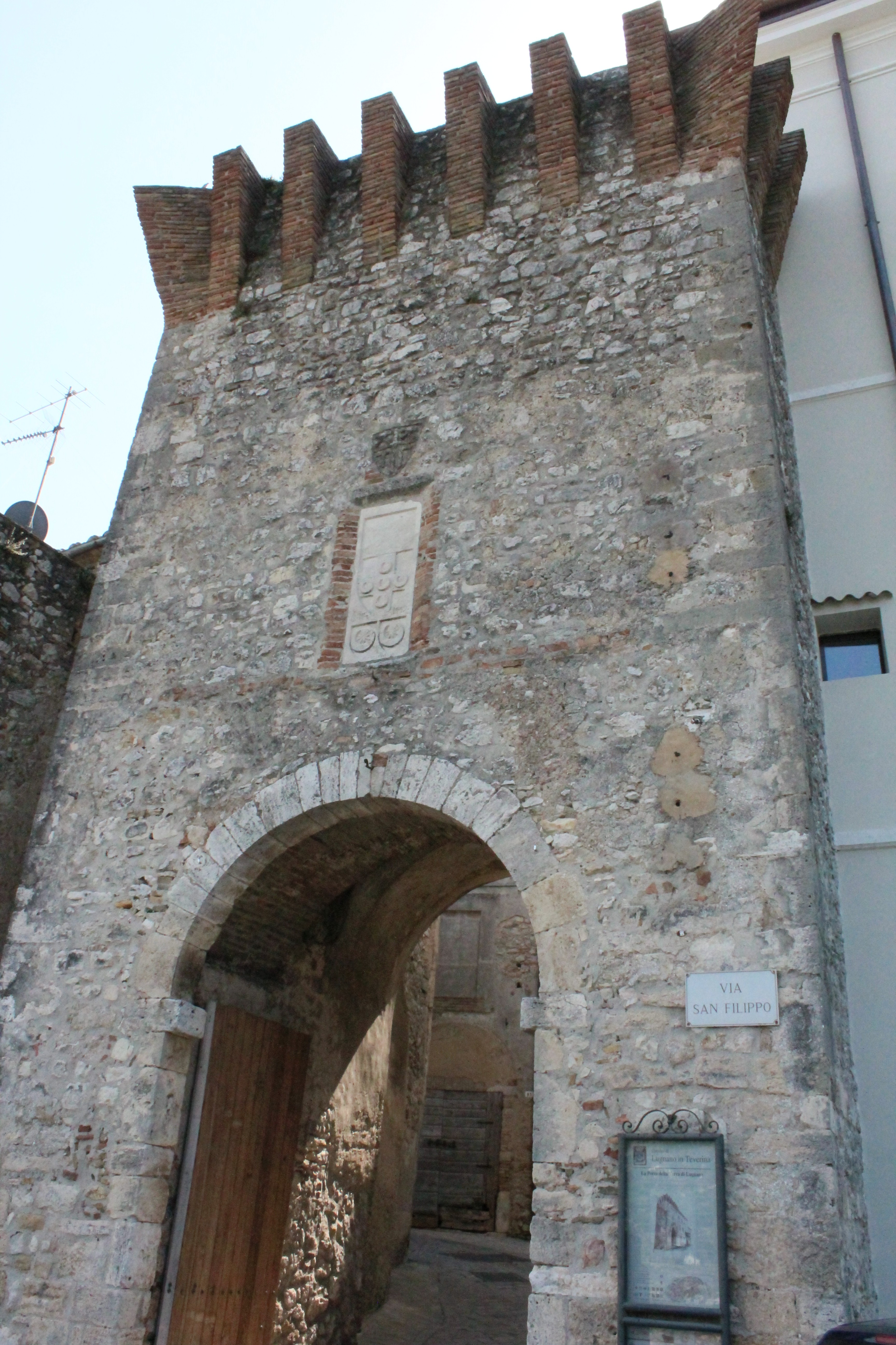 City Gate Porta Sant’Antonio (Porta della Terra di Lugnano), Lugnano in Teverina, Province of Terni, Umbria, Italy